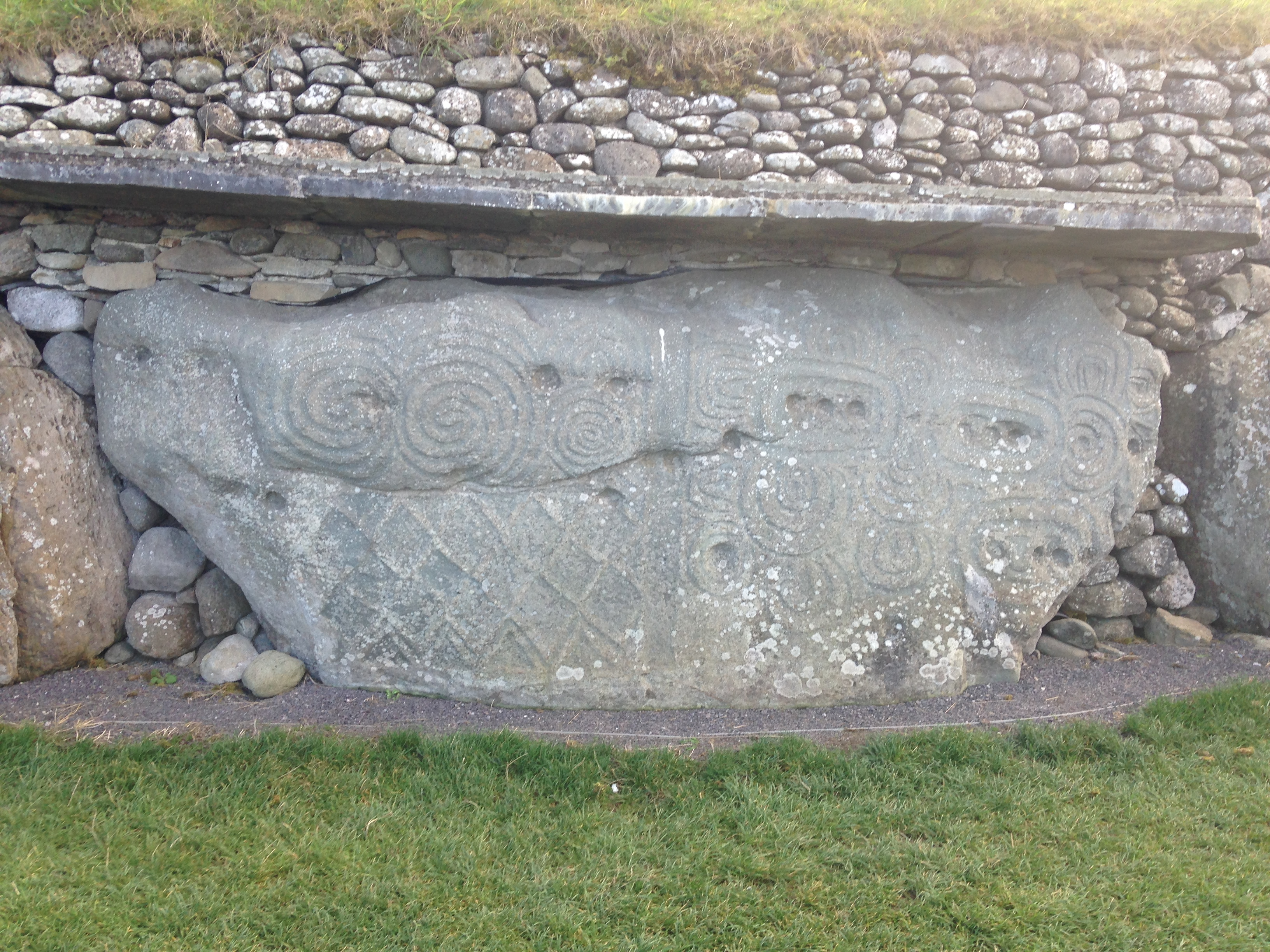 New Grange Kerbstone with spirals and lozenges